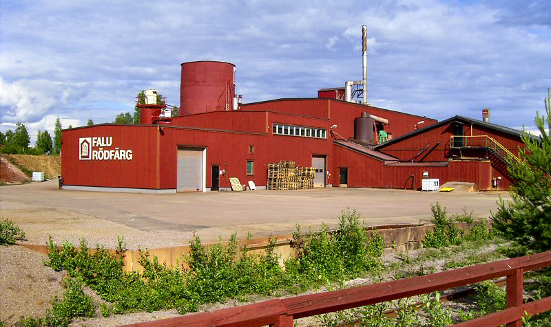 Manufacturing plant of the Genuine Falun Red Paint